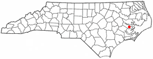 Category:North Carolina Dot Maps